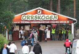 Entrance to Malung Orrskogen during "Dansbandsveckan" v29 2008-07-18